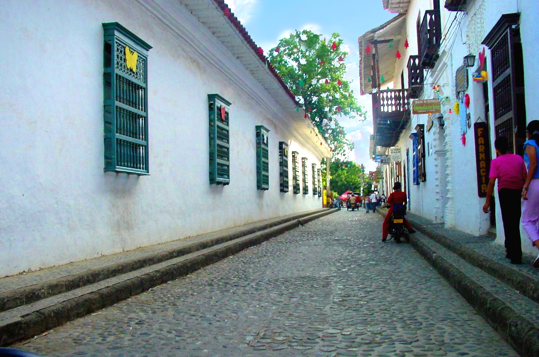 Image captured by uploader on October 2006